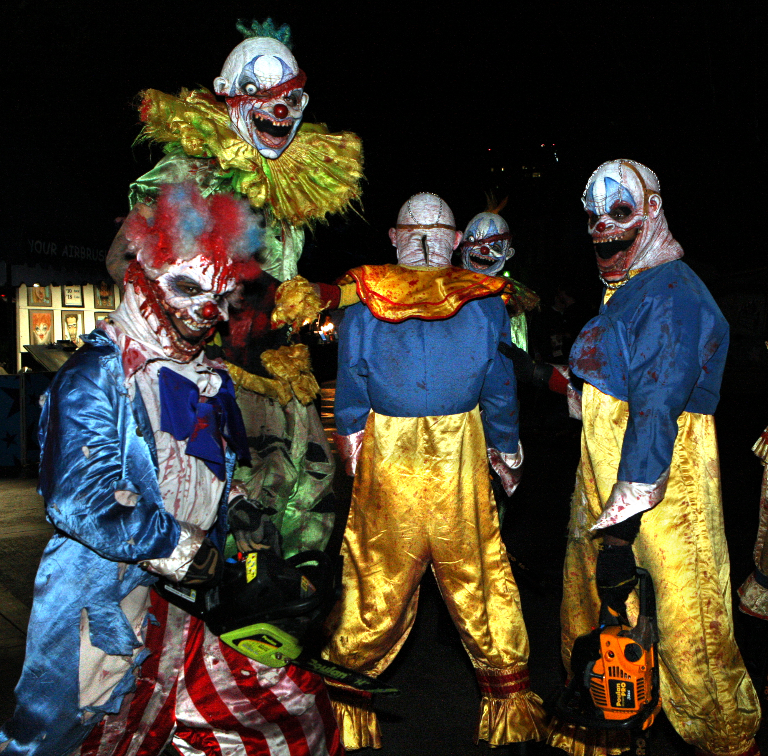 Scary Clowns at PDC2008 Party at Universal Studios.